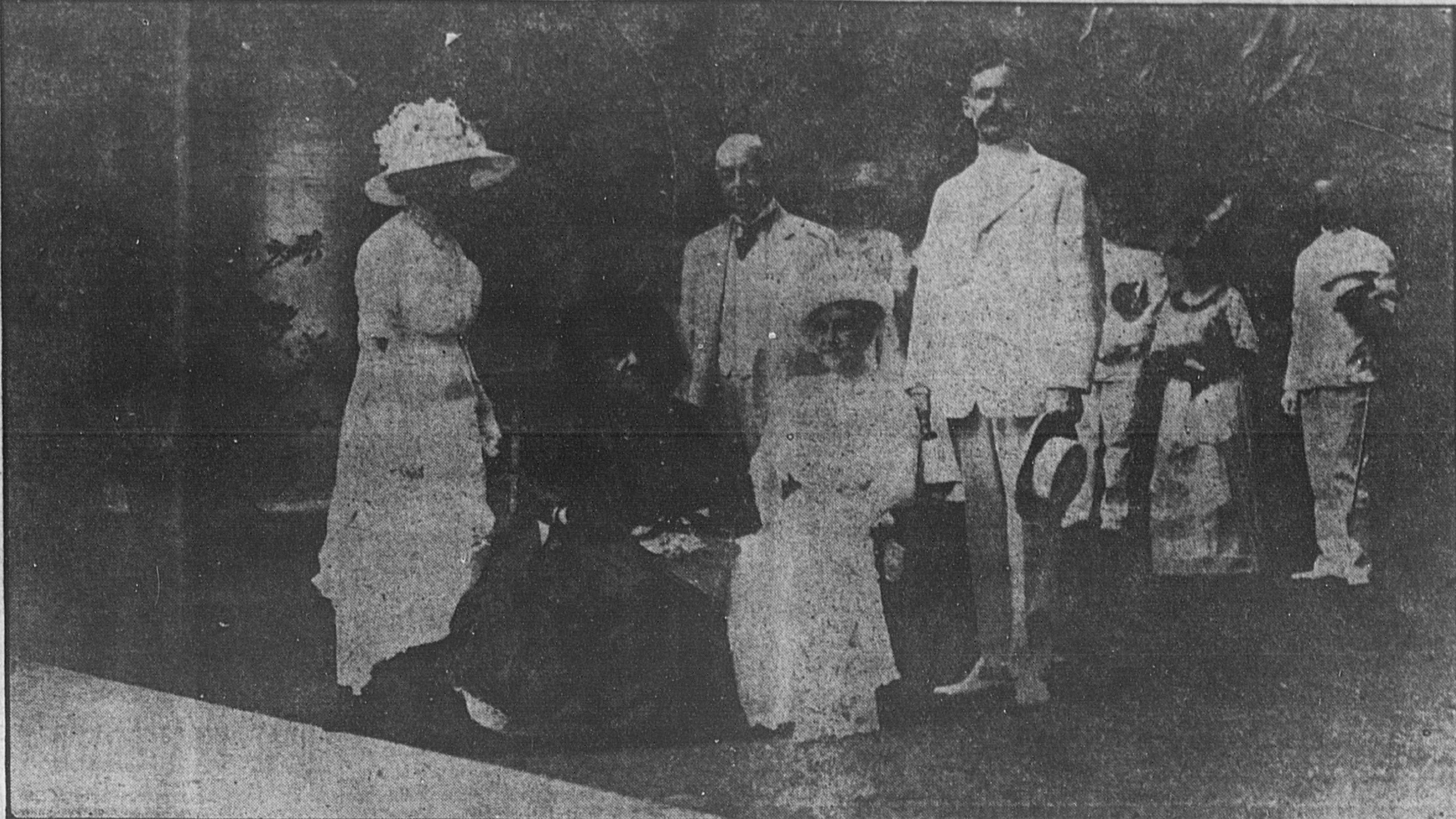 Last of Island Monarchs and Representatives of the New Regime Meet to Welcome Secretary of State at Fete on Governor's Lawn. Seated – Queen Liliuokalani and Mrs. Knox. Standing (from left to right) – Mrs. Frear, Secretary Knox and Governor Frear. In the background are Colonel and Mrs. Jones.